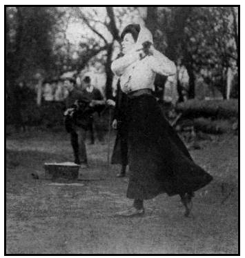 Dorothy Campbell in 1909, shortly before she won the United States Women's Amateur Championship and British Ladies Amateur Golf Championship that year. She went on to win two additional US Women's Amateurs and another British Ladies Amateur. Orginal caption read: "Miss Dorothy Campbell: Scottish lady champion 1905-6-8"